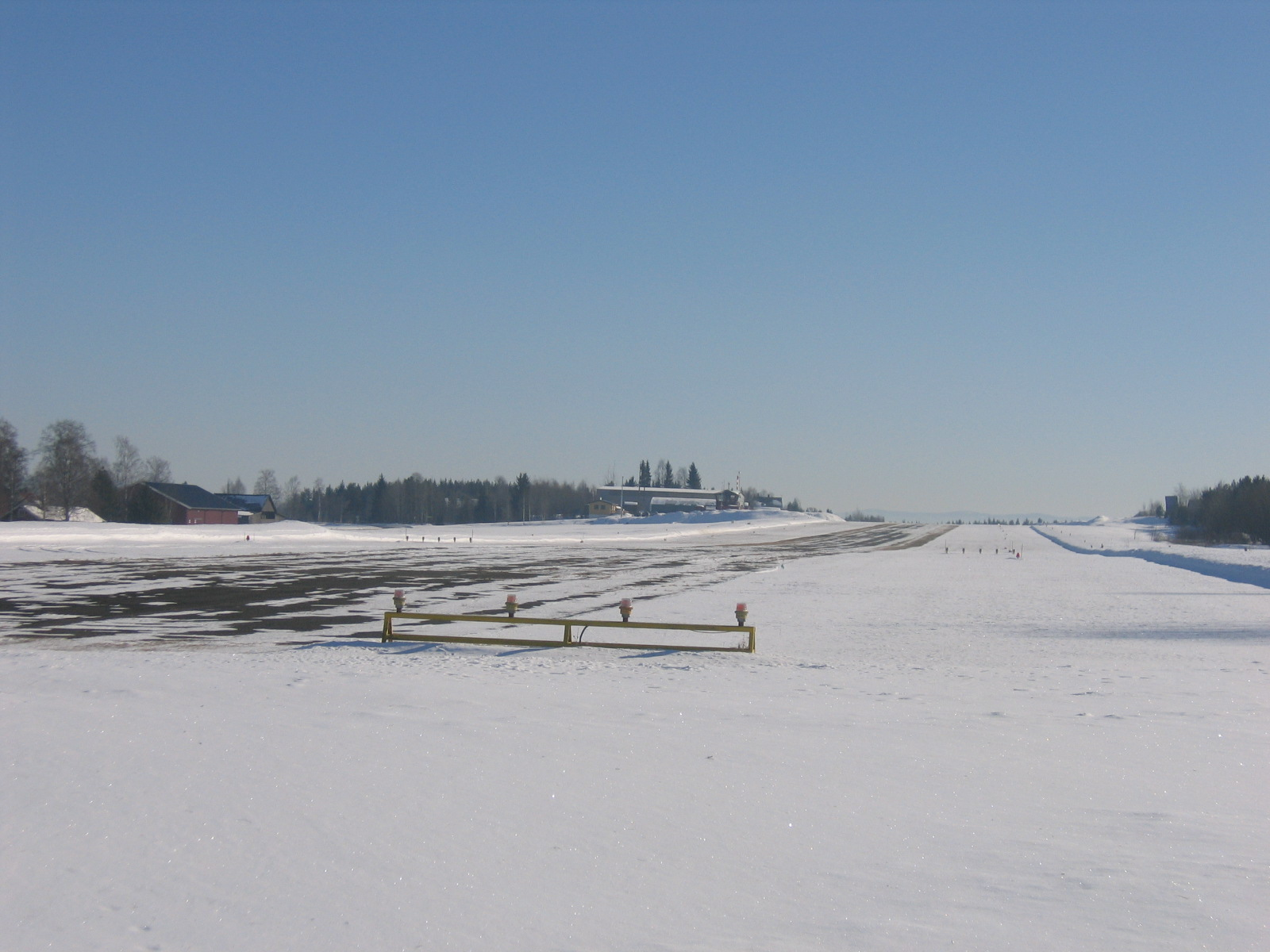 Hamar Airport, Hamar, Hedmark, Norway.